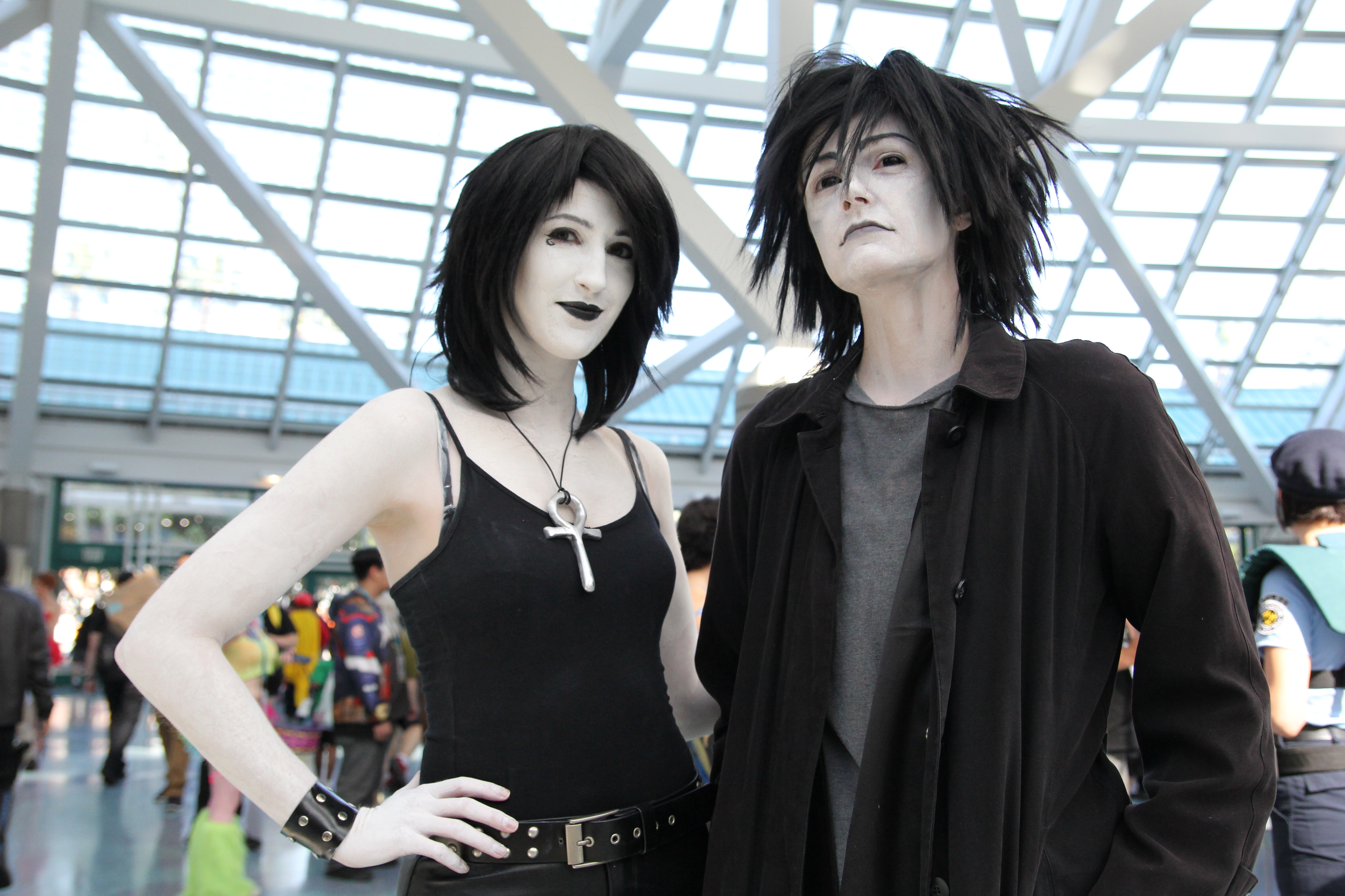 A cosplay of Neil Gaiman's Death [left] and Morpheus [right] Cosplay at WonderCon 2016.